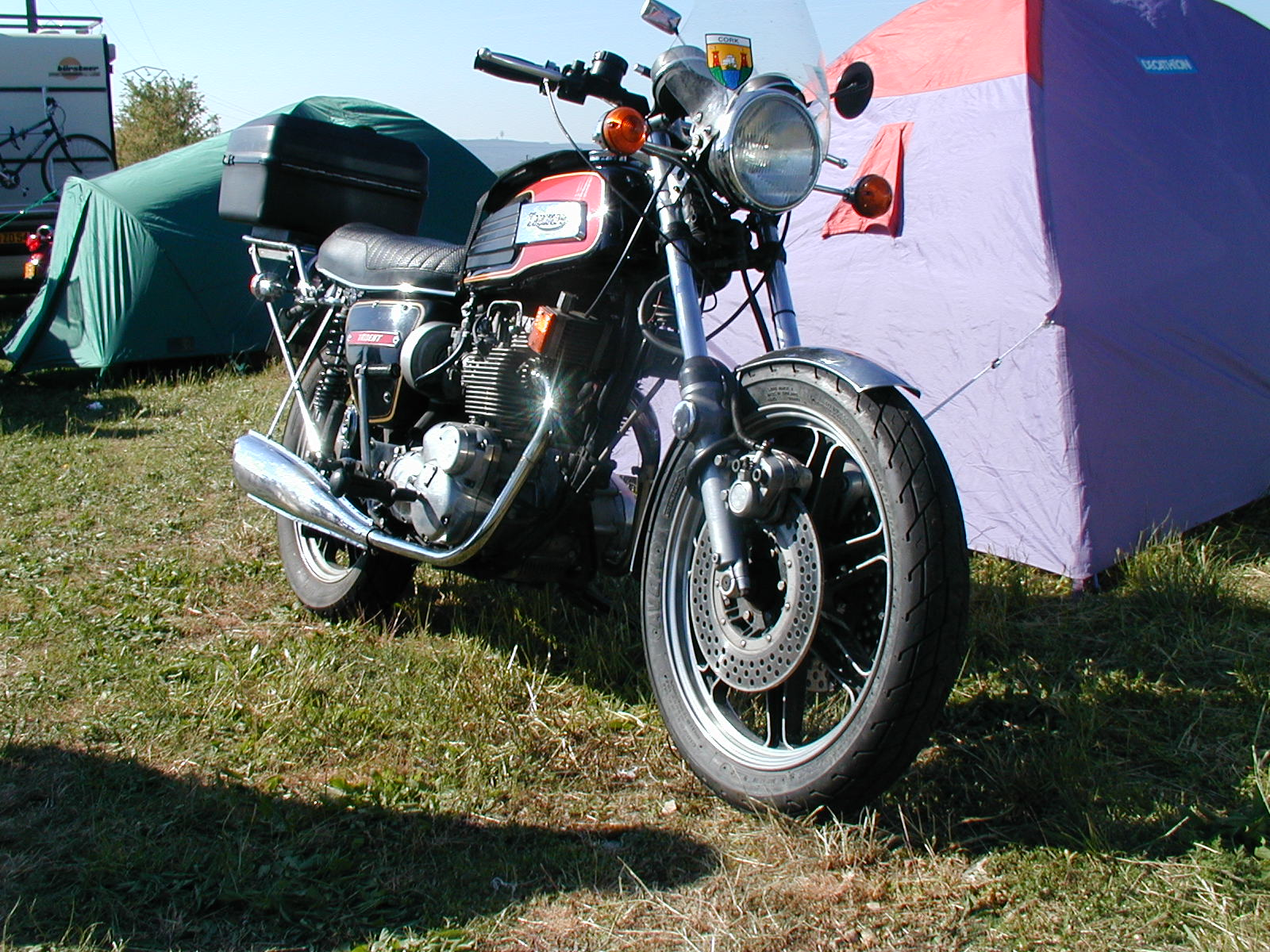 Triumph Trident T150